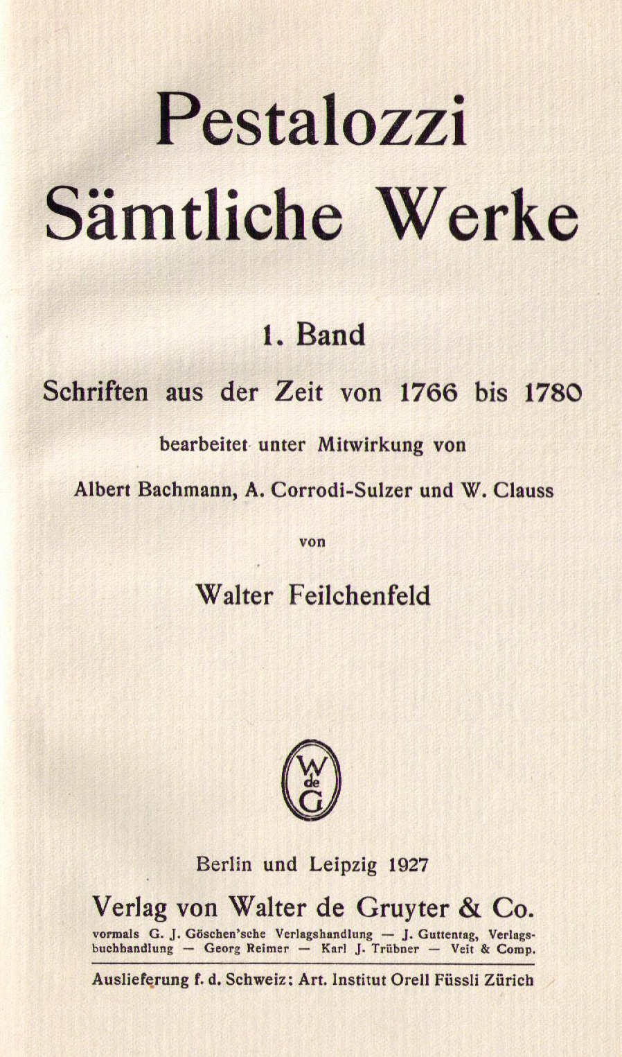 First page of collected works of Pestalozzi, 1927.